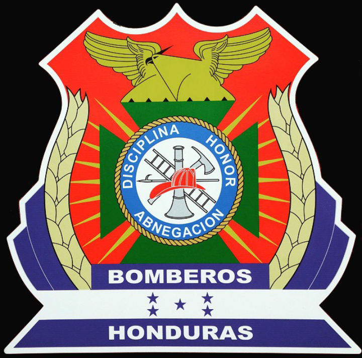 Fire Department Honduras